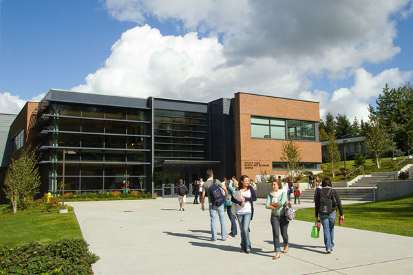 John Vicory, Donald H. Argue Health and Sciences Center